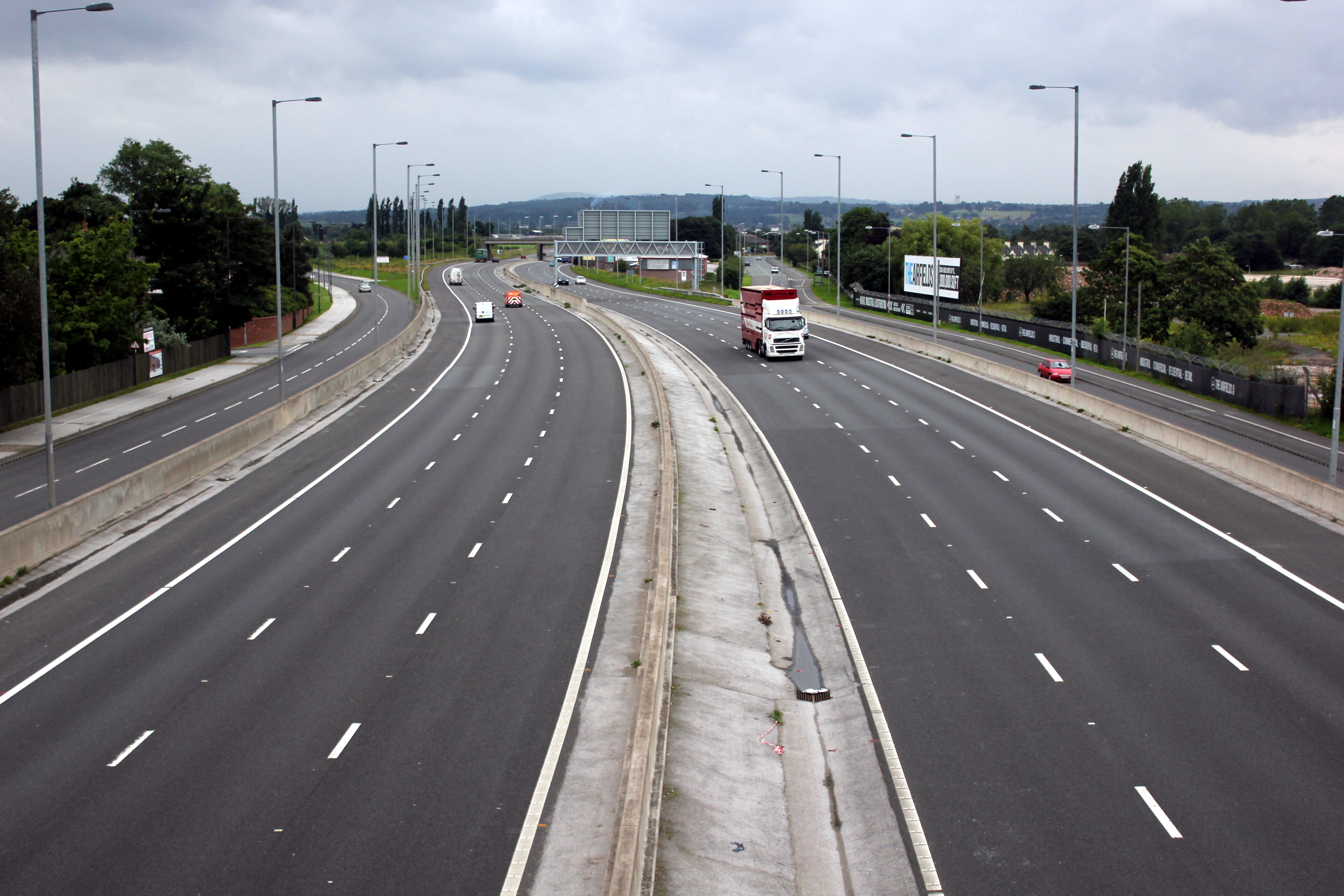 The A494 Heading towards Queensferry